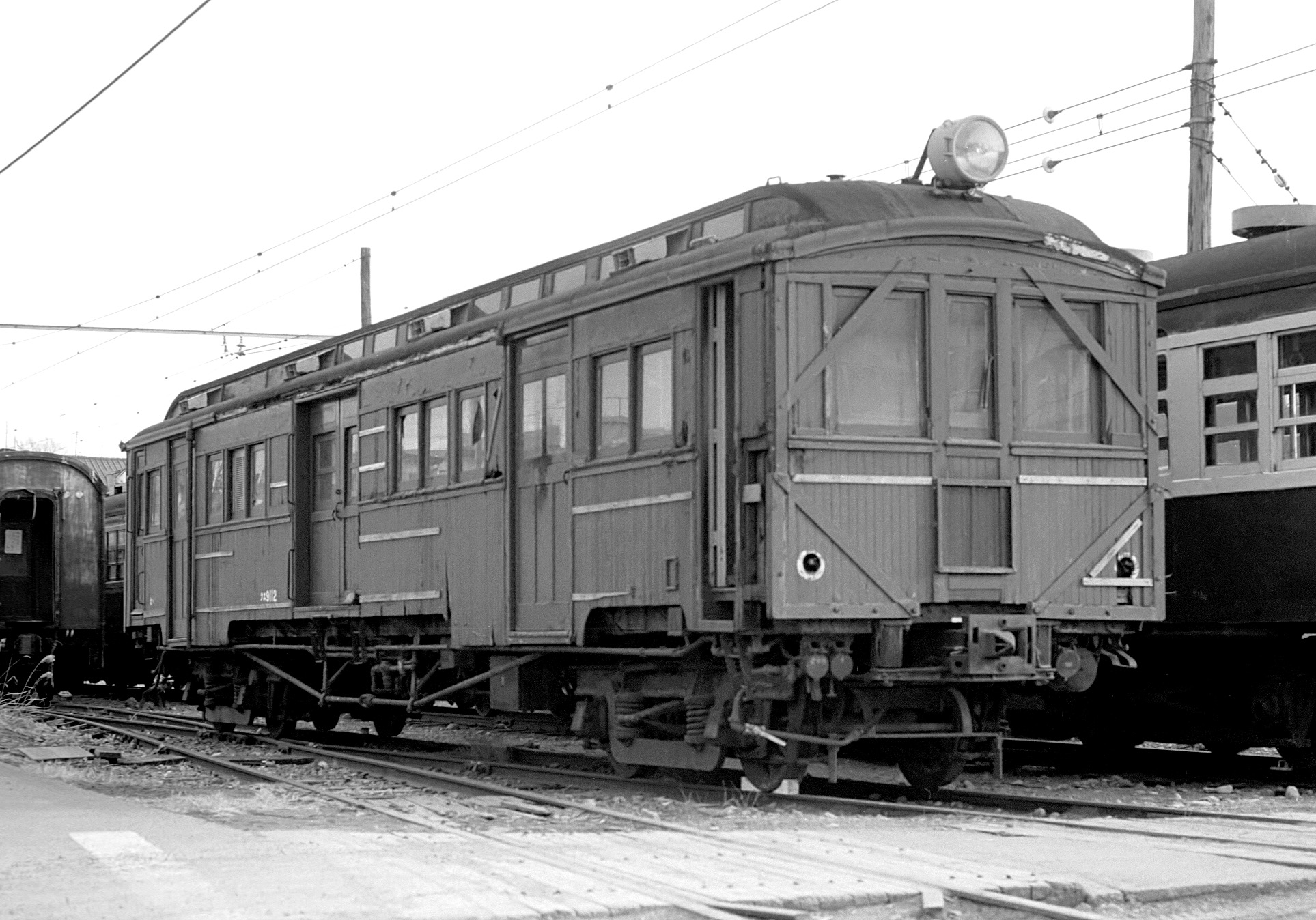 Japanese National Railways（JNR) KuE9112 wooden rescue train of KuE9110 type one at the JNR Ofuna factory of those days.